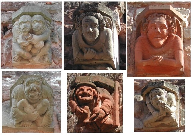 Abbey Figures. These are only some of the figures, which I think have been recently done, in the upper chamber of Rufford Abbey. They may have been copied from the original ones.